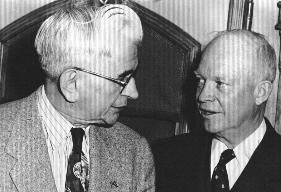 Rudolph Gabriel Tenerowicz and President Isenhower